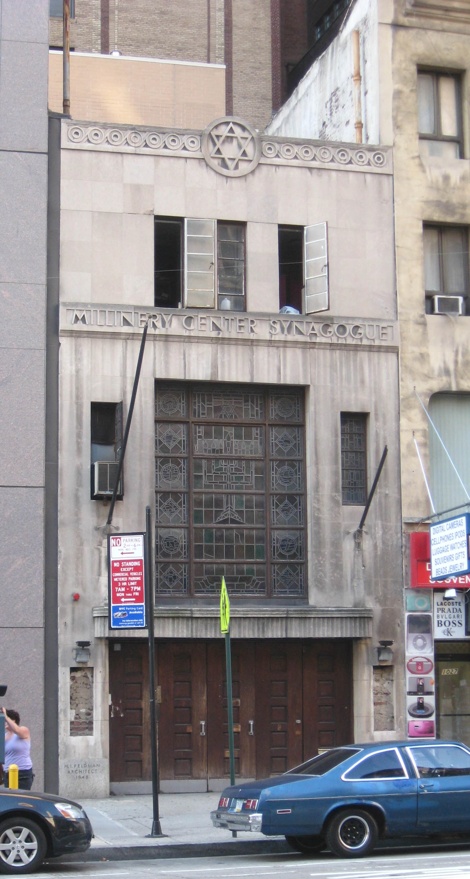 Looking west across 6th Avenue at Millinery District Synagogue in the Garment District